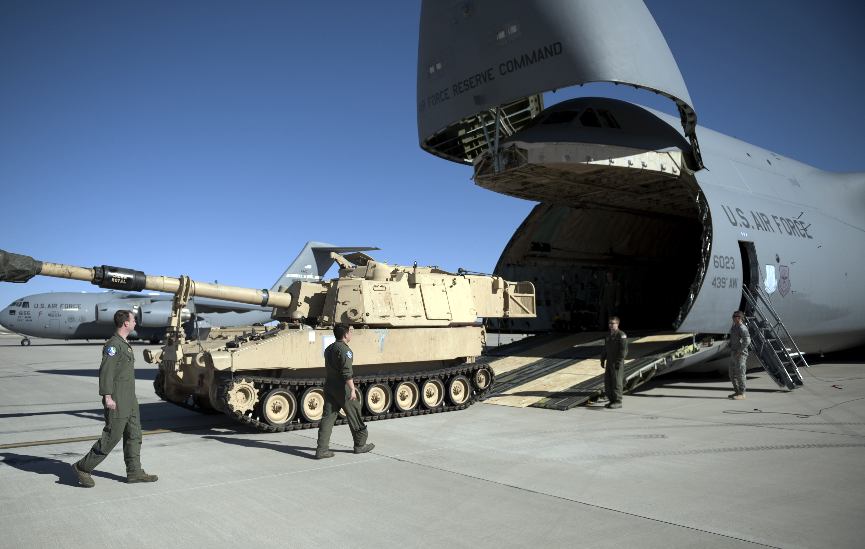 Soldiers assigned to Charlie Battery, 29th Field Artillery Regiment, 2nd Battalion, 1st Armored Division and Airmen with the 312th Airlift Squadron, 349th Air Mobility Wing from Travis Air Force Base, California, conduct a STRAT Air movement with two M109A6 Paladins and a Lockheed C-5 Galaxy at Biggs Army Airfield on Fort Bliss, Texas, March 28, 2015. The 1st Armored Division Artillery in conjunction with 2-29 FA conducted a low cost training event allowing both units to refine readiness in a STRAT Air movement, while solidifying a relationship with the 66th Weapons School located at Creech Air Force Base, Nevada.